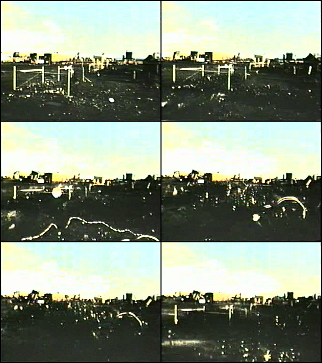 Film stills from the Cannikin test as part of the Amchitka program, showing the displacement of dirt and rock caused by the 5 MT underground thermonuclear explosion.